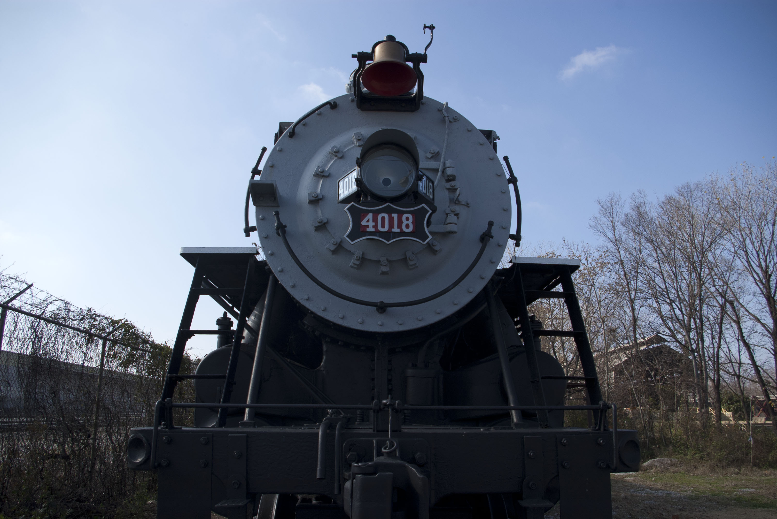 Front View of SLSF 4018 is a class USRA Light 2-8-2 "Mikado" steam locomotive